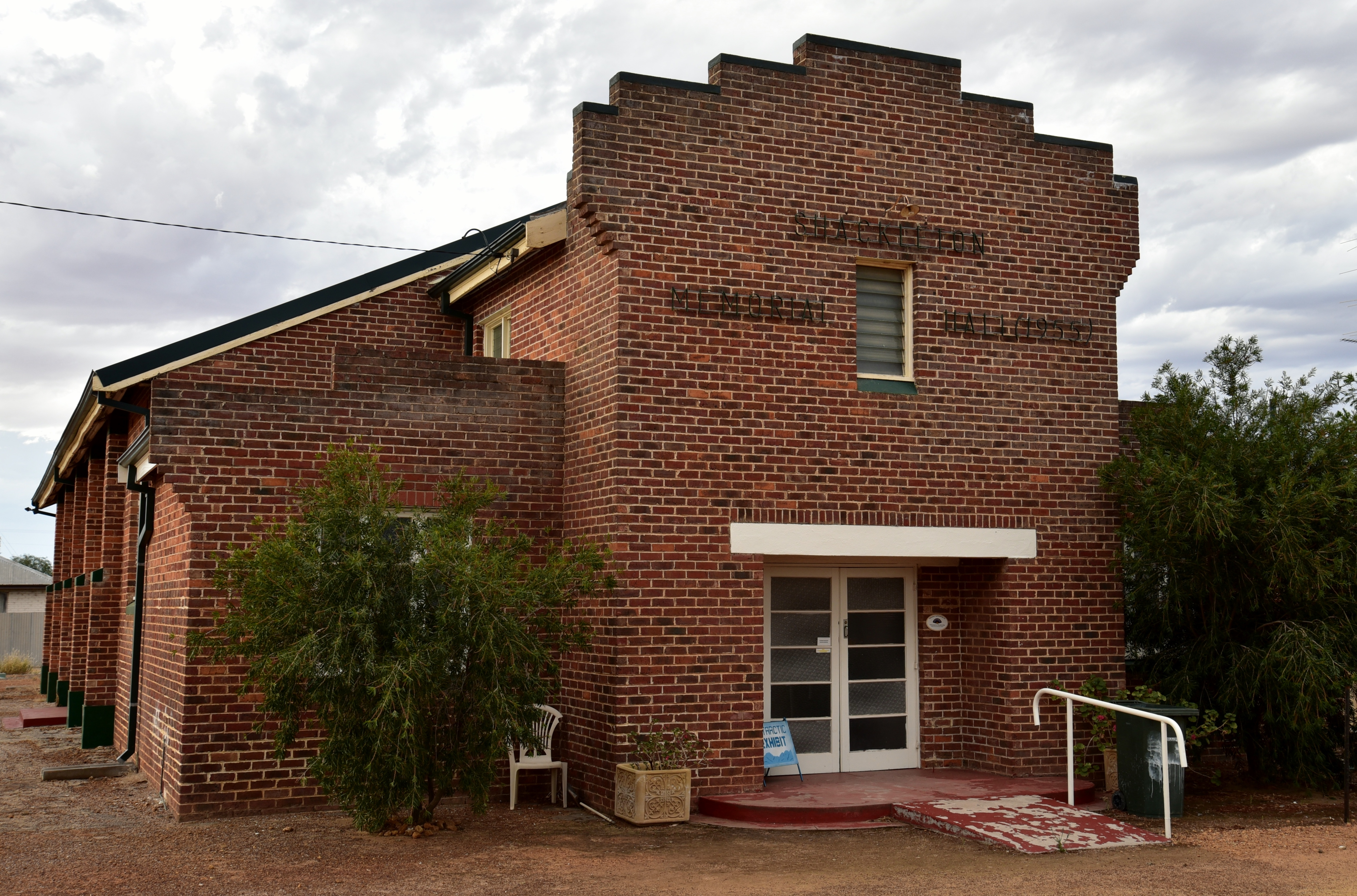 View of the Memorial Hall, Shackleton, Western Australia